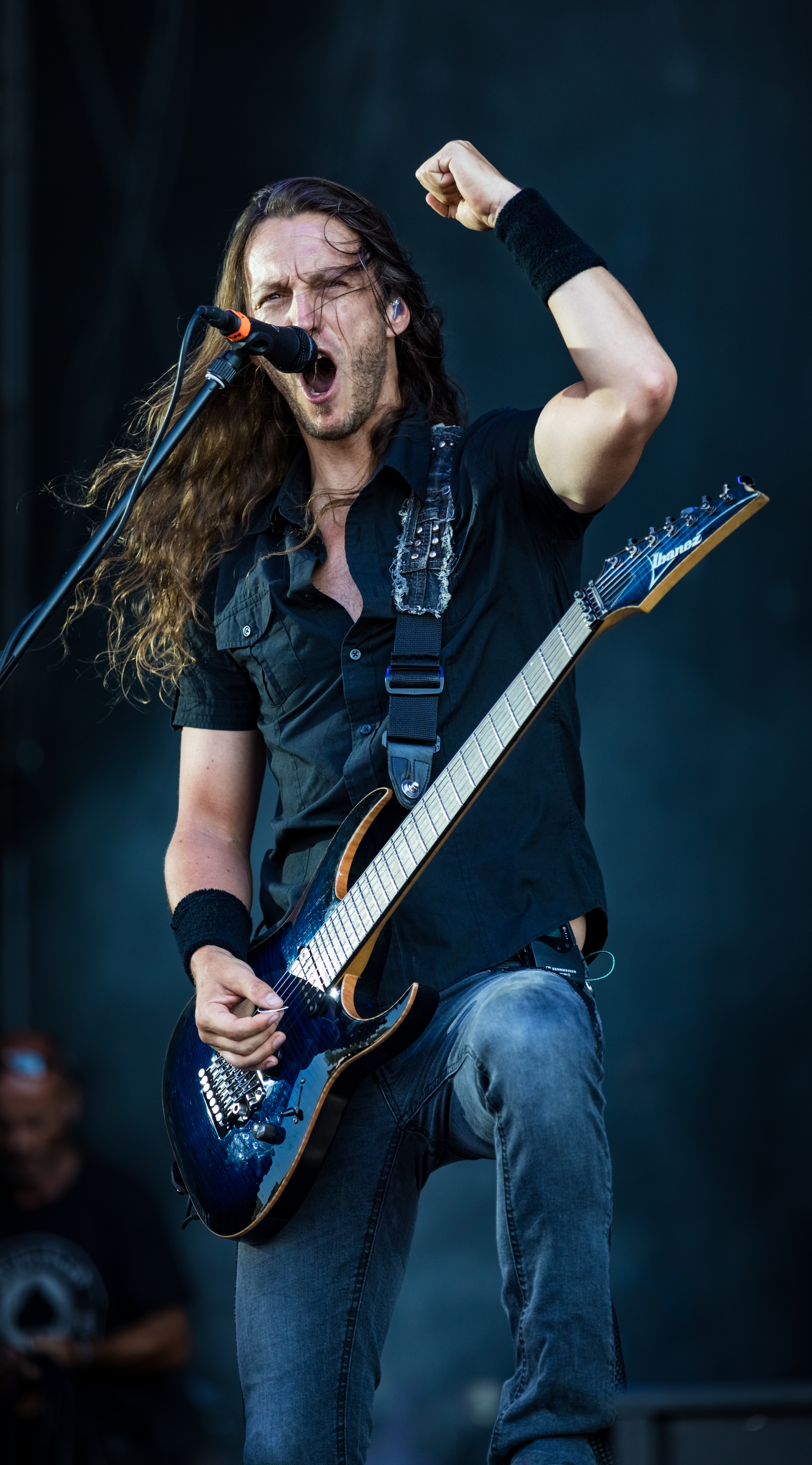 Epica - Wacken Open Air 2018